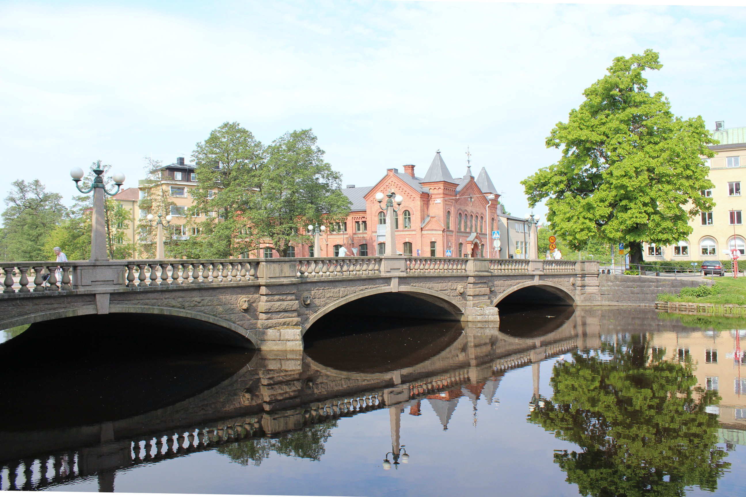 Bridge Vasabron leading over the current Svartån, Örebro, Sweden